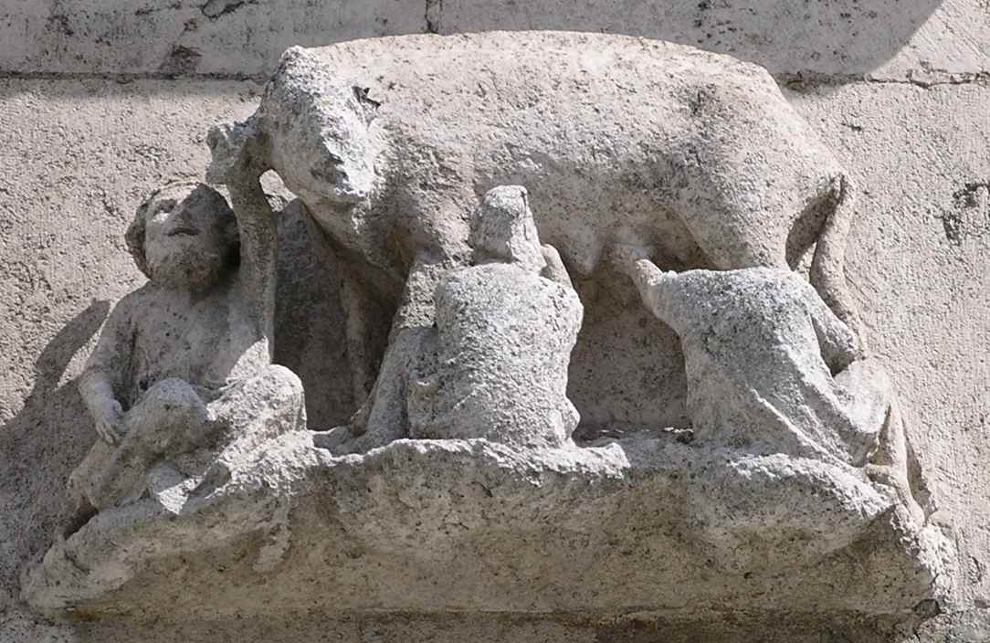 Judensau at the Cathedral of St. Peter in Regensburg. Ref.: A. Huber, M. Schuller: Der Dom zu Regensburg. Regensburg, 1995. ISBN 3-7917-1449-X. S. 91